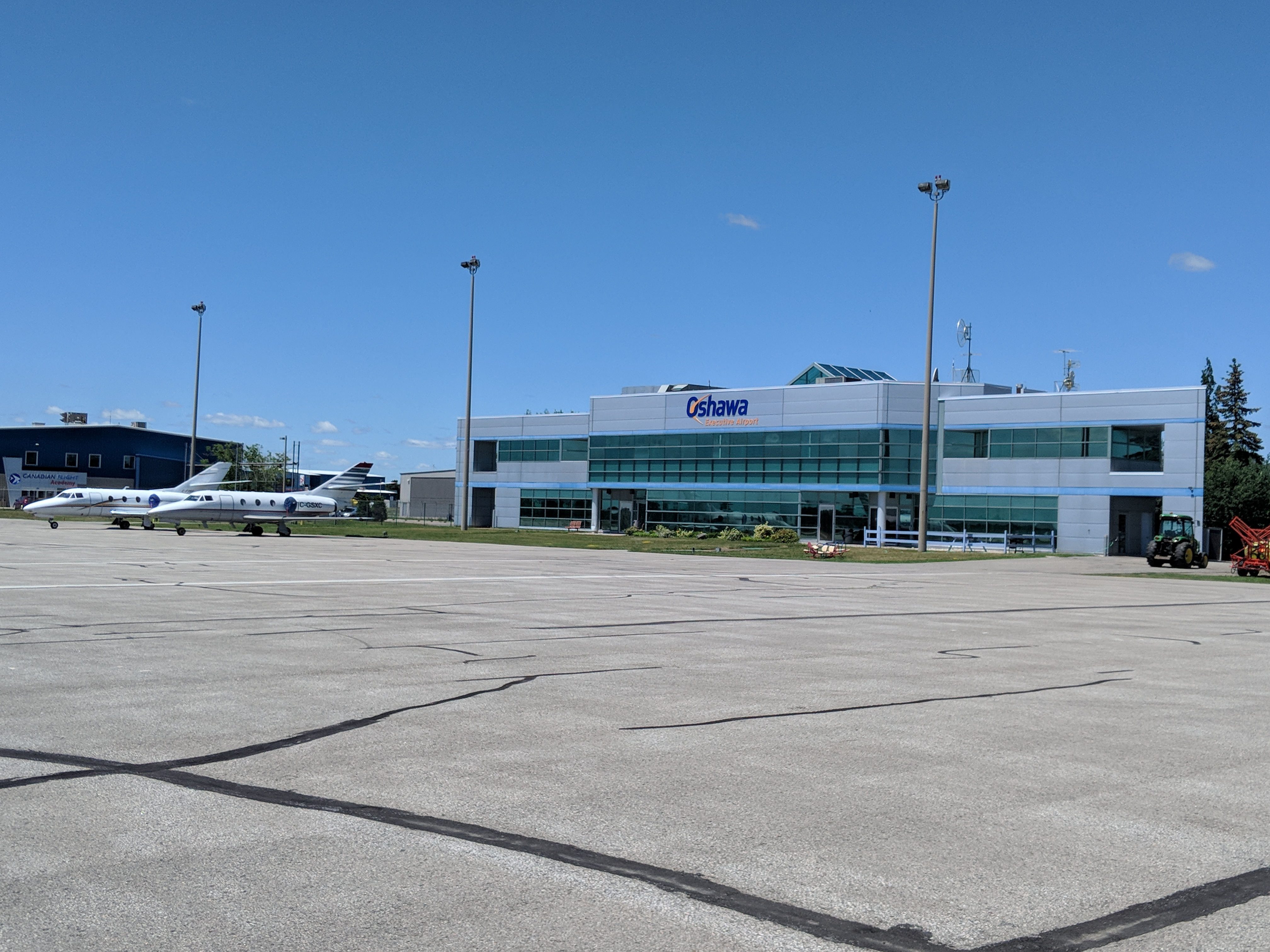 Airside shot of the main terminal building at Oshawa Airport 2018.